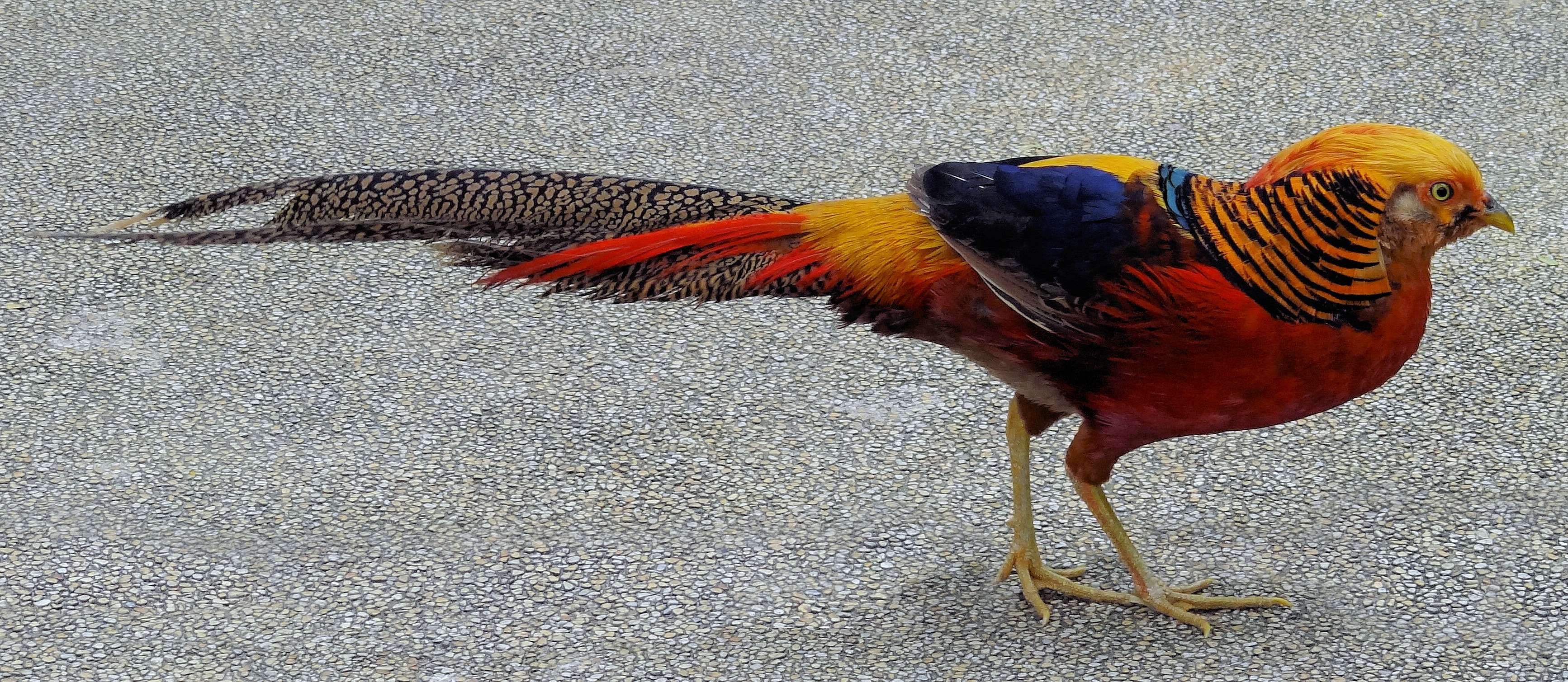 A Golden Pheasant photographed walking freely around inside the enormous aviary at the Kuala Lumpur Bird Park.